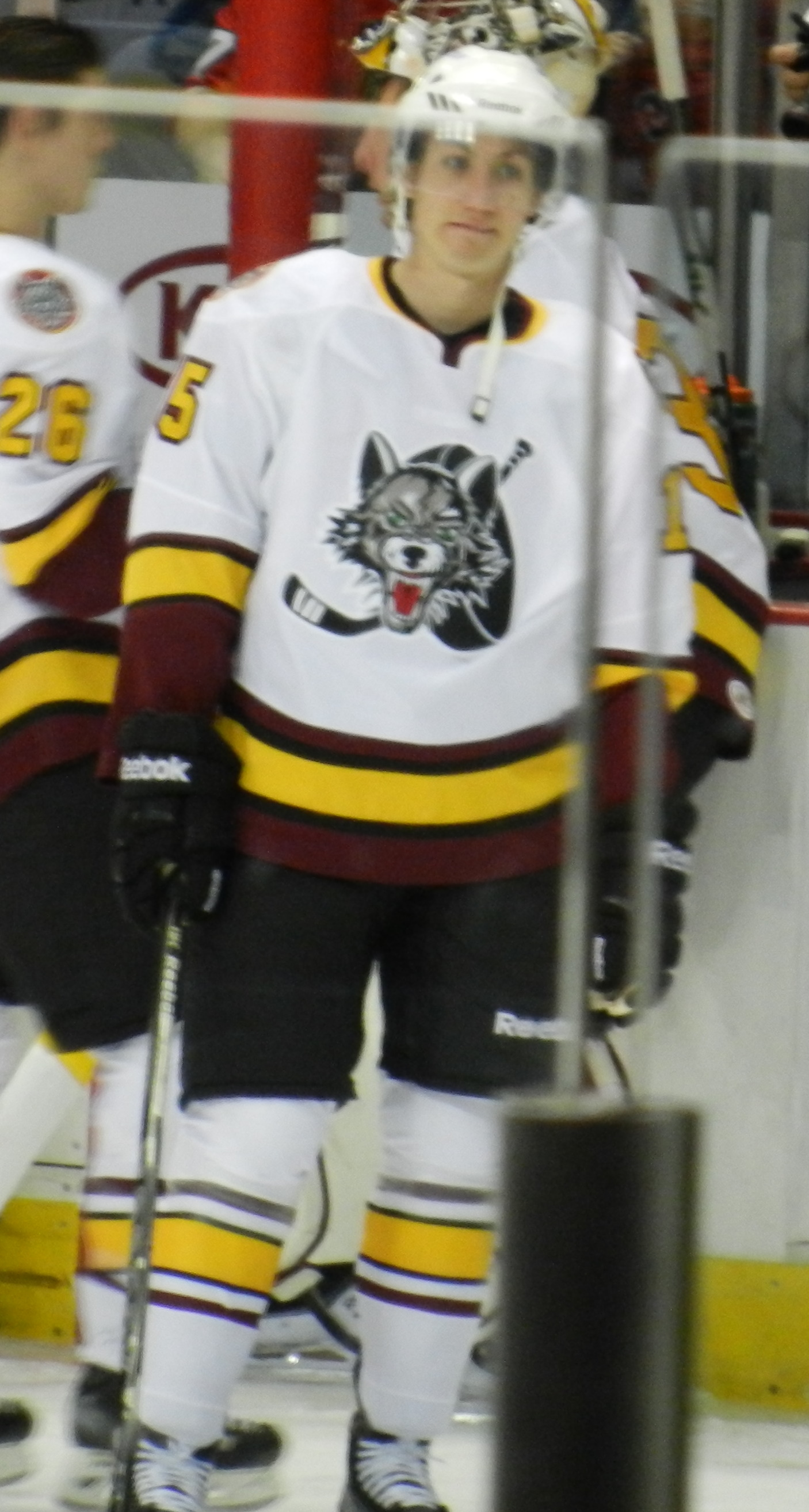 Anton Rodin playing for the Chicago Wolves during the 2011-12 AHL season